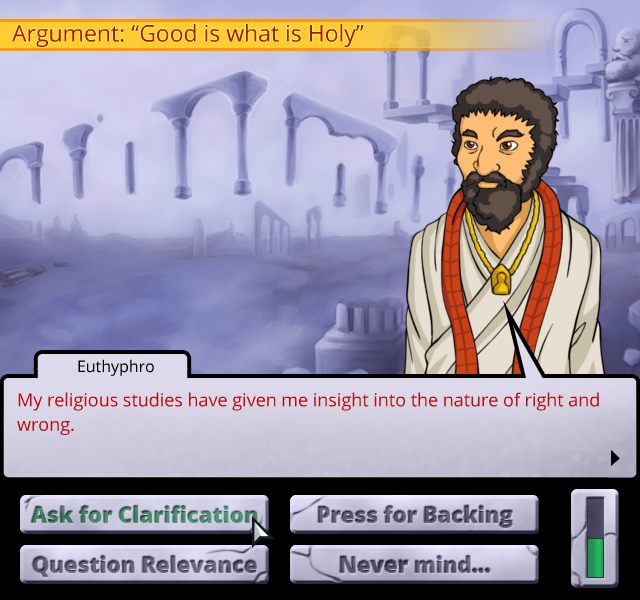 Screenshot from Socrates Jones